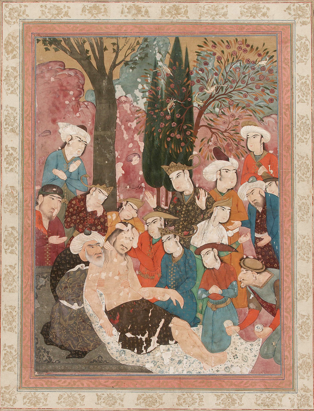 Lamentation over the dead body of Christ by Reza Abbasi